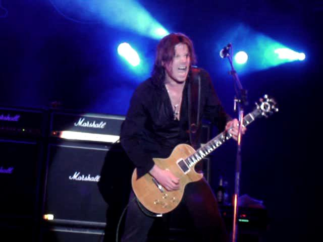 John Norum durante lo SFTD tour, 2005